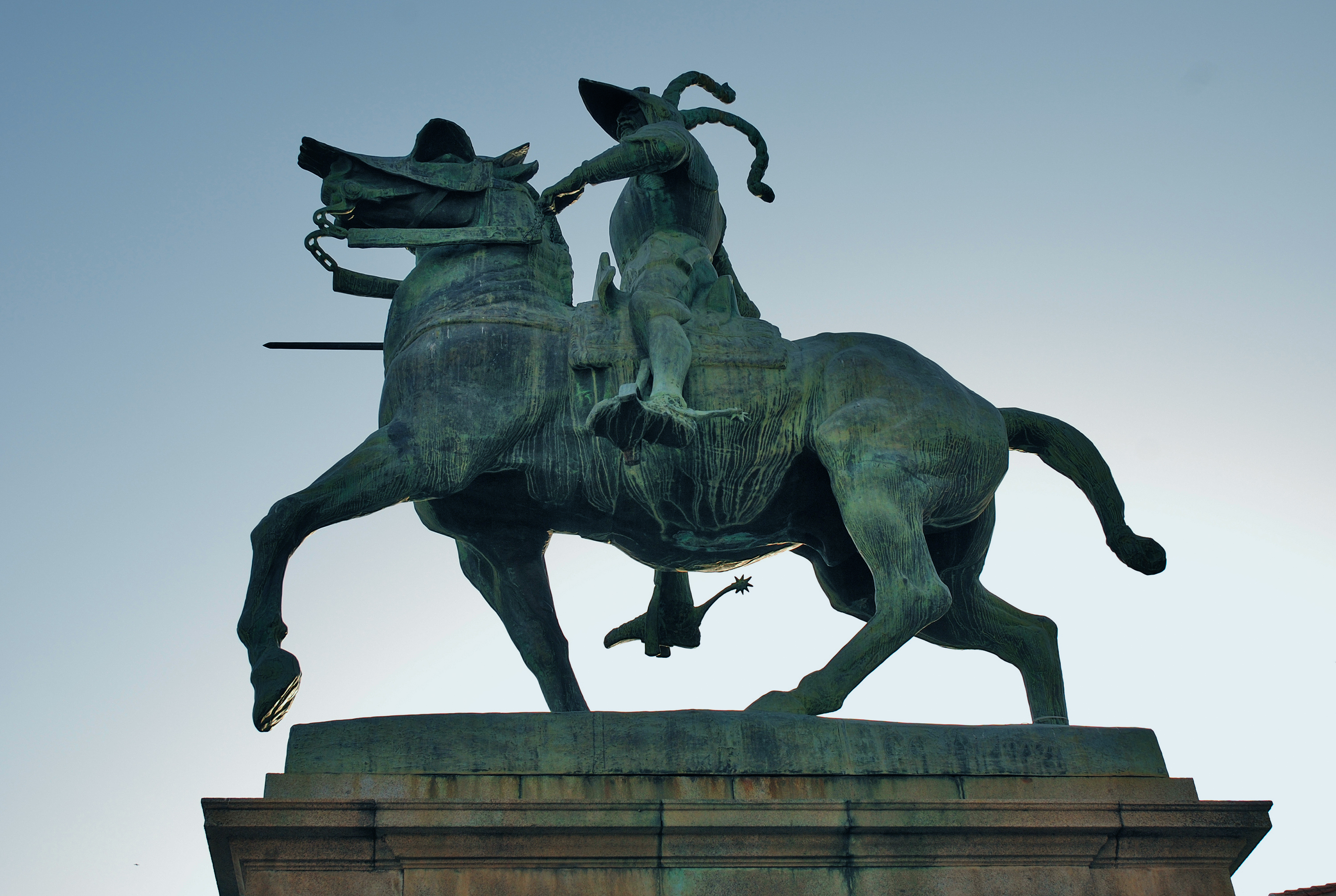 Bronze equestrian statue of Francisco Pizarro in Trujillo (Cáceres, Extremadura, Spain).